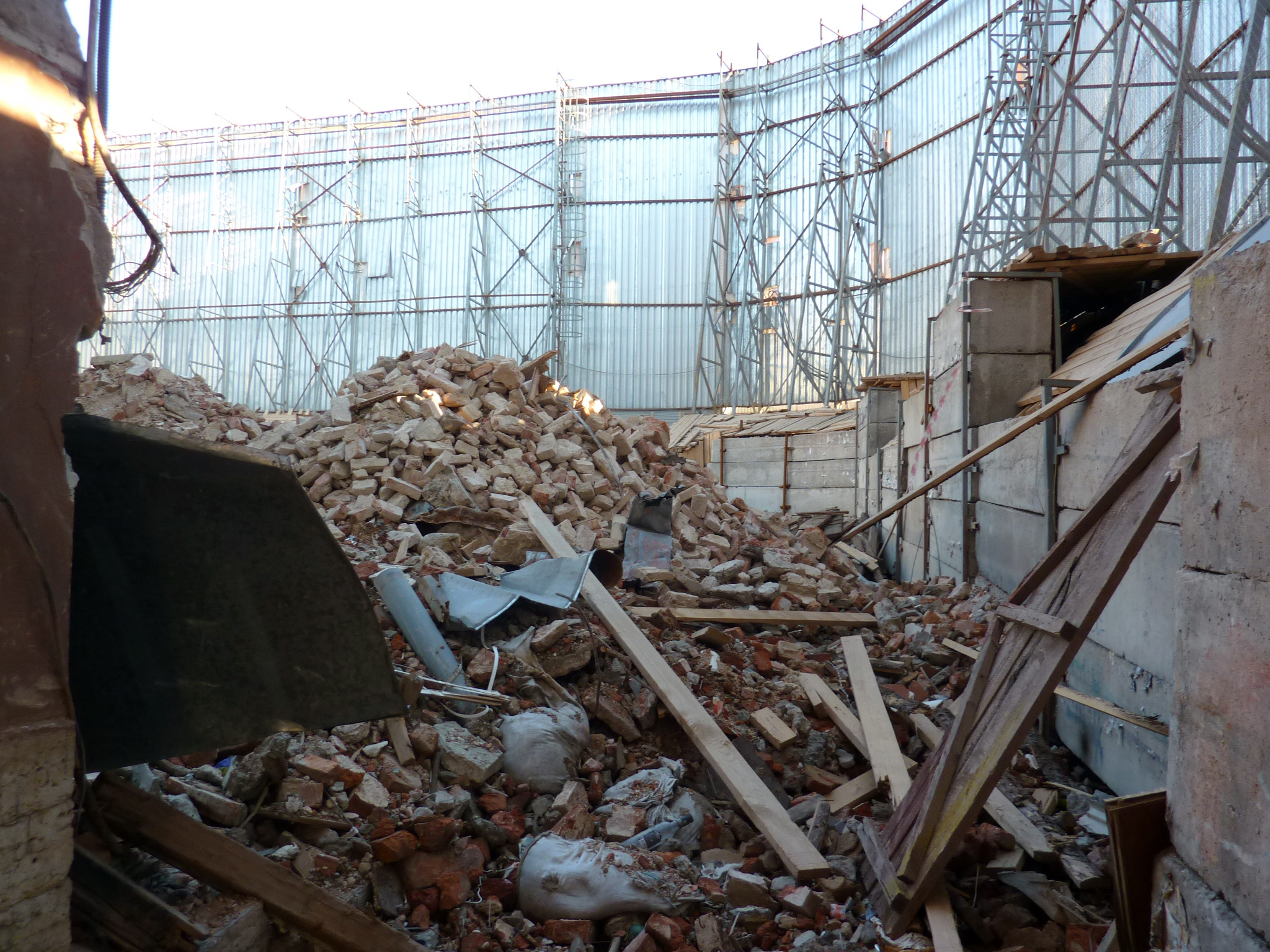 May 2011: All that remains of the former 1948 Stalinist Central District Tax building after property developers convinced SPb's Mayor that the city really needed a new modern hotel at this location!